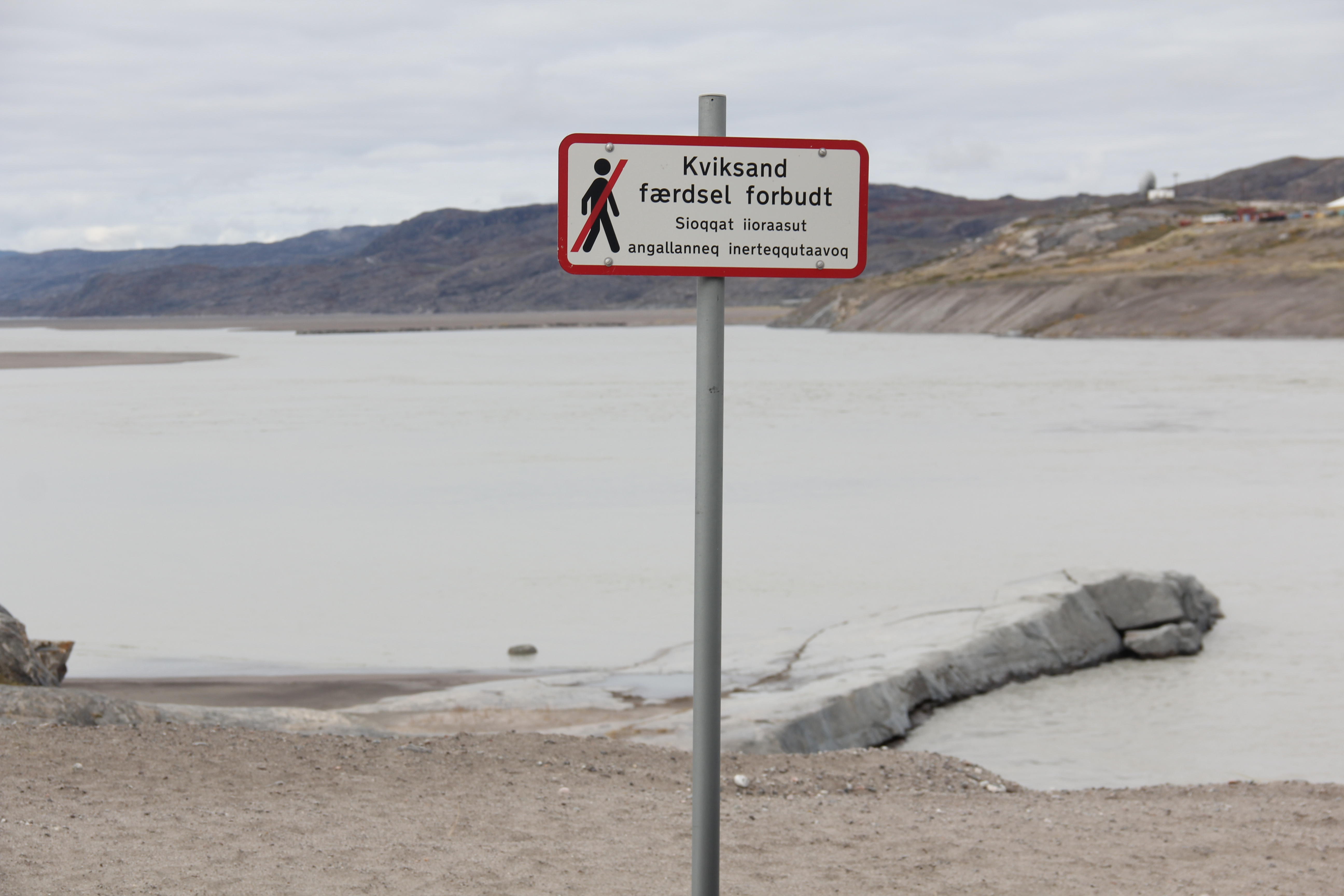 Quicksand warning, Greenland